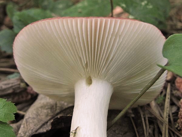 Russula fragilis Fr. Location: Oneida Co., New York, USA For more information about this, see the observation page at Mushroom Observer.